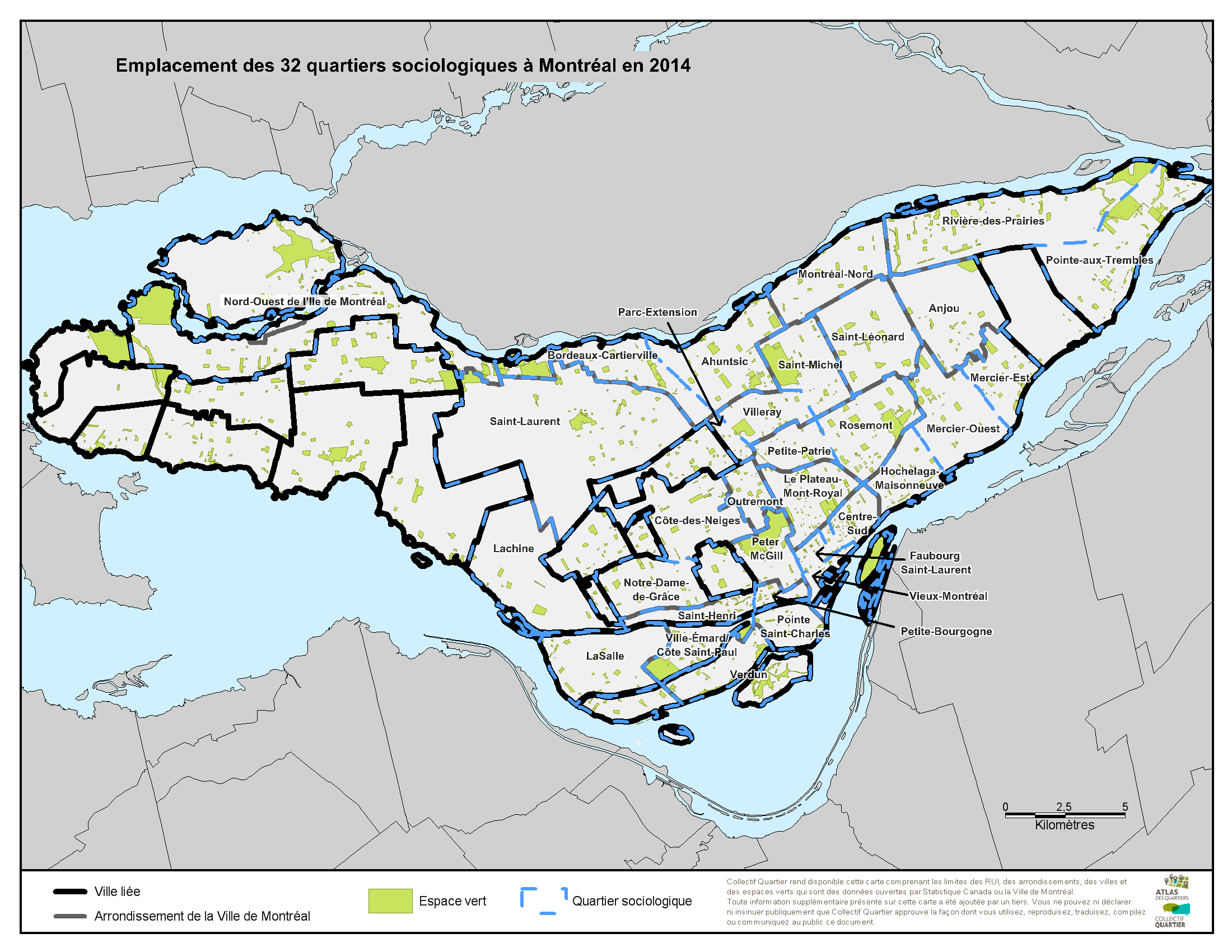 Map of Montreal sociological neighborhoods in 2014